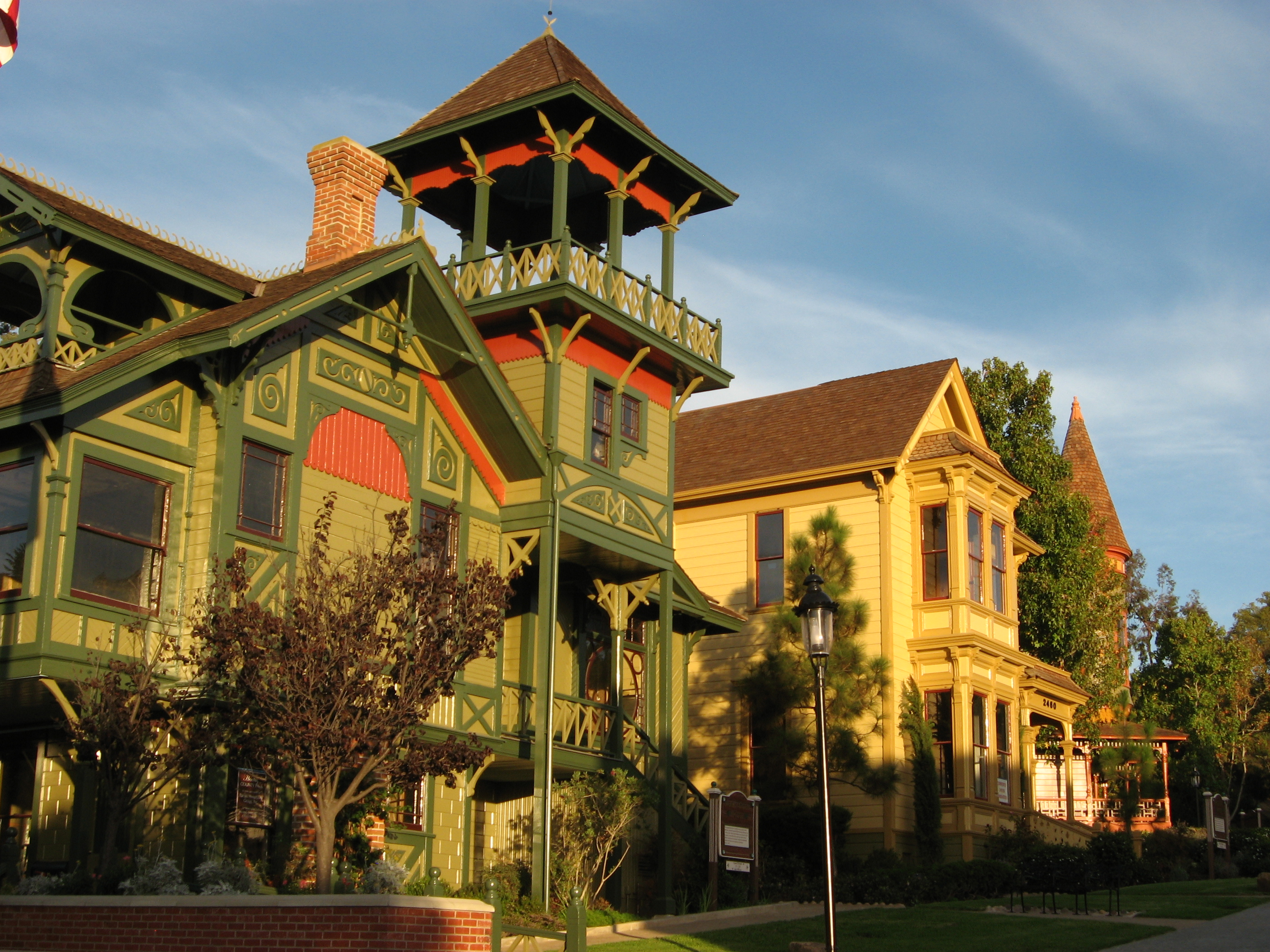 Old Town San Diego, San Diego, California, 2010